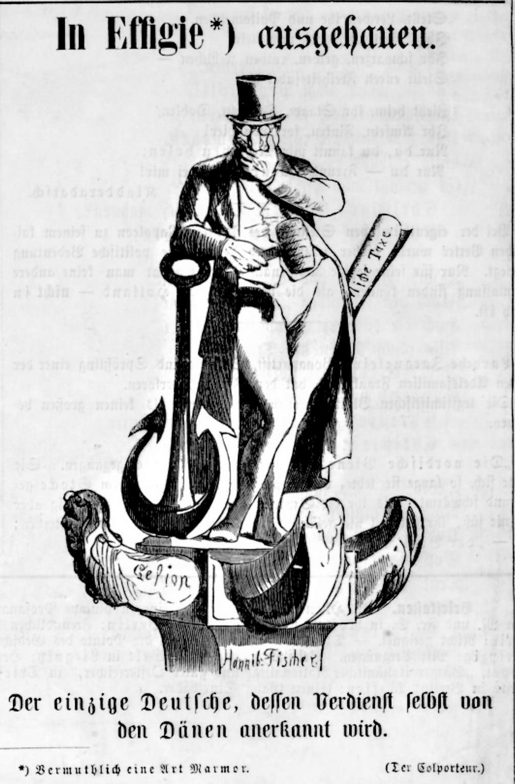 Karikatur, Kladderadatsch. Gefion. Hannibal Fischer.